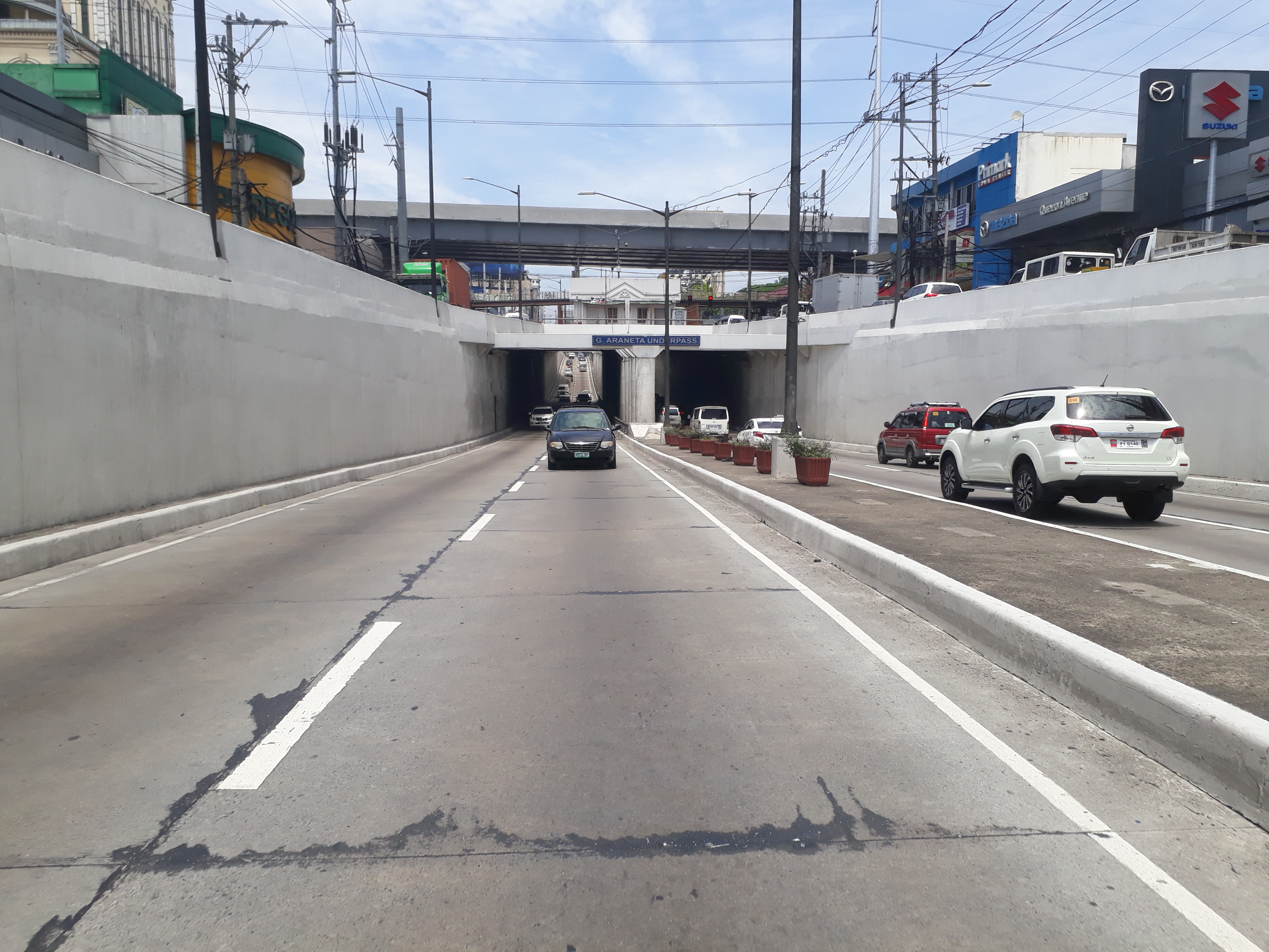 Quezon Avenue-Araneta underpass in Quezon City